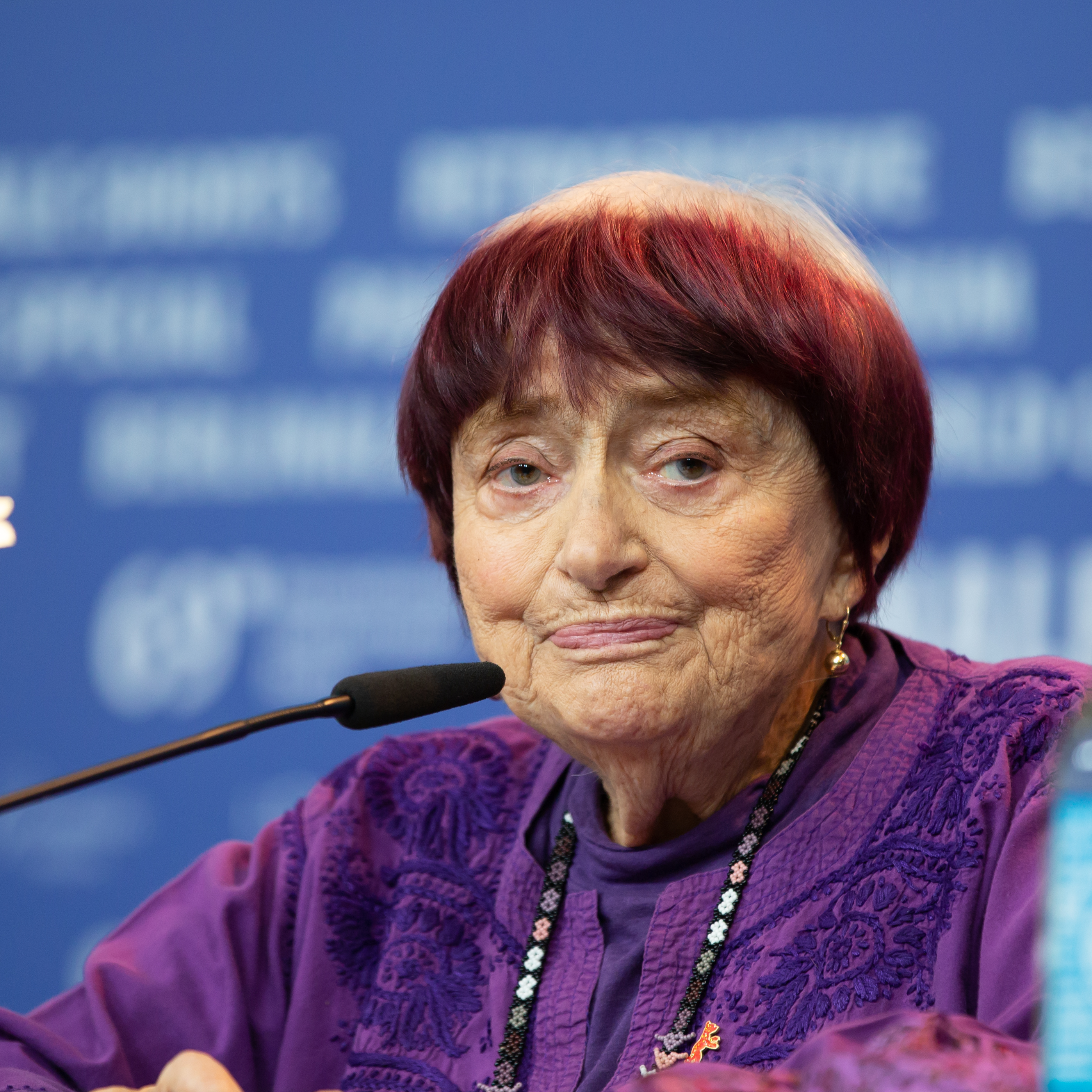 Film director Agnes Varda at the Berlinale 2019